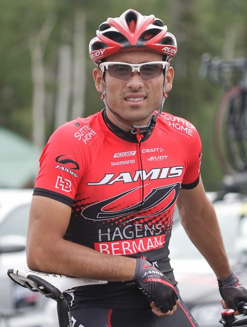 Janier Acevedo, colombian cyclist of Jamis-Hagens Berman team at the Tour of Utah 2013